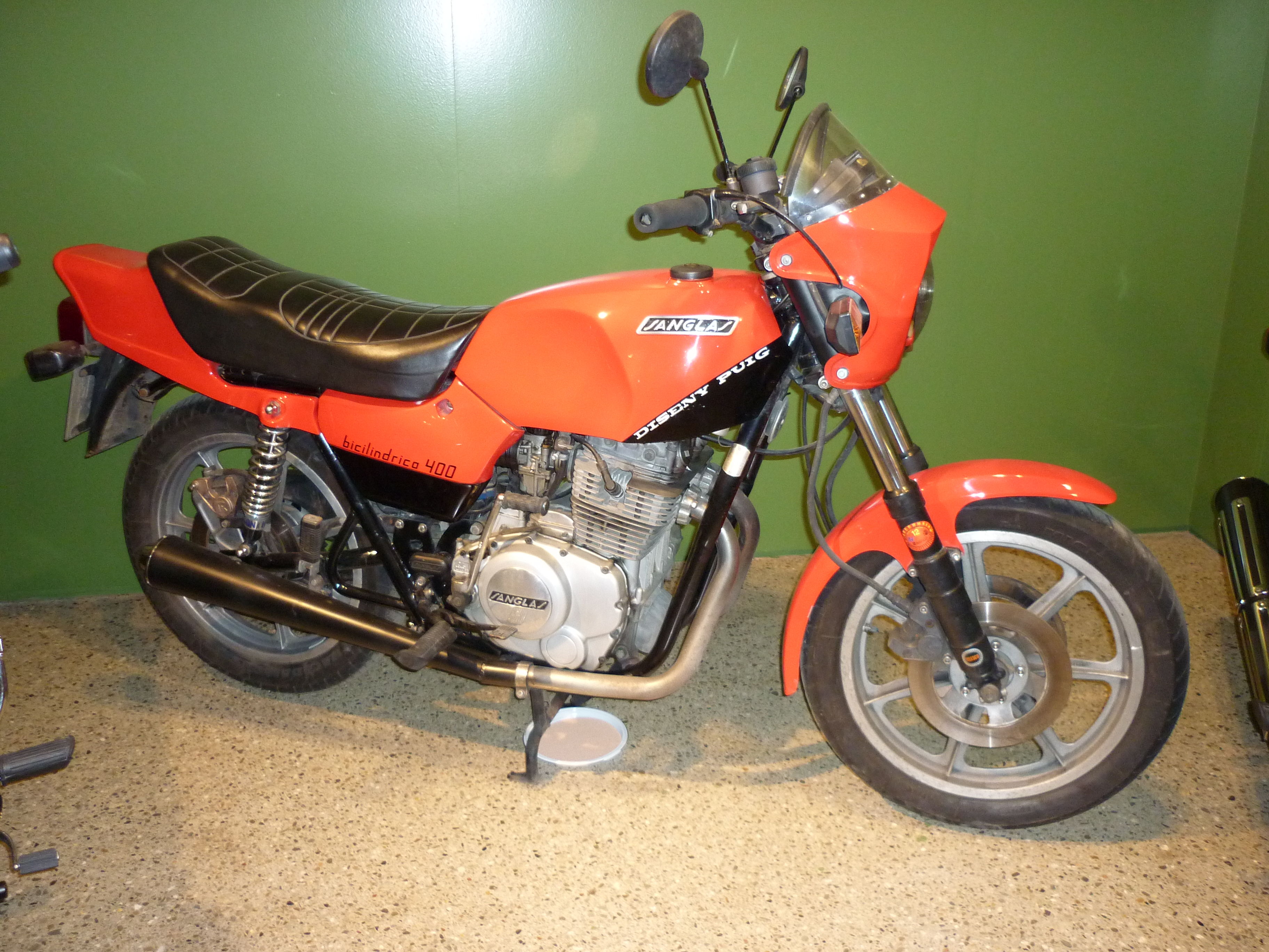 Sanglas 400 Y Bicilíndrica (1979) with a Yamaha engine.Museu Industrial del Ter, Manlleu, Catalonia (9 to 21 november 2010)